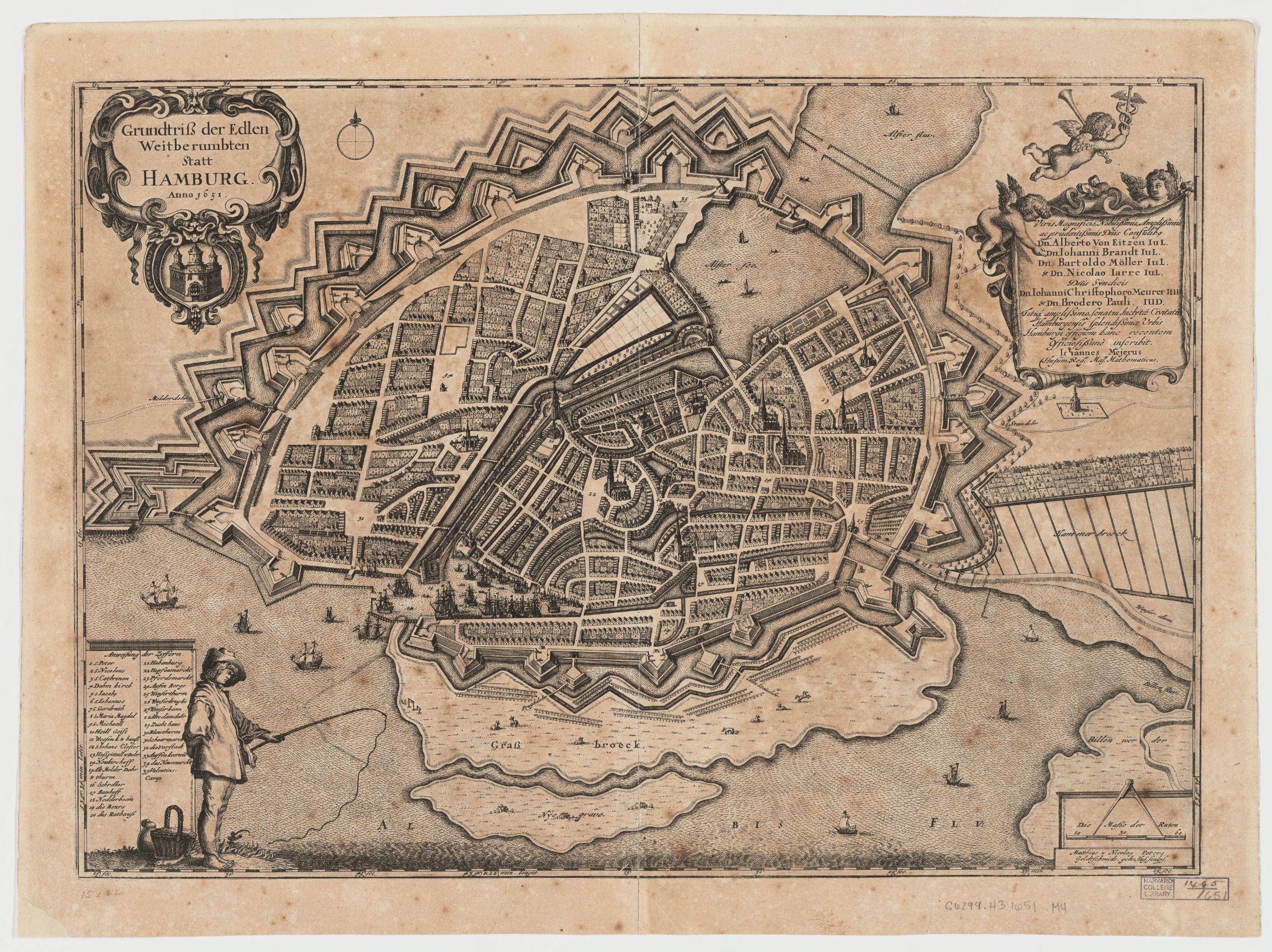 Johannes Mejer (1606–1674): Engraving of Hamburg (1651)